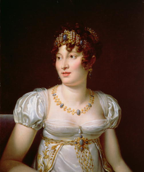 Caroline Bonaparte, queen of Naples